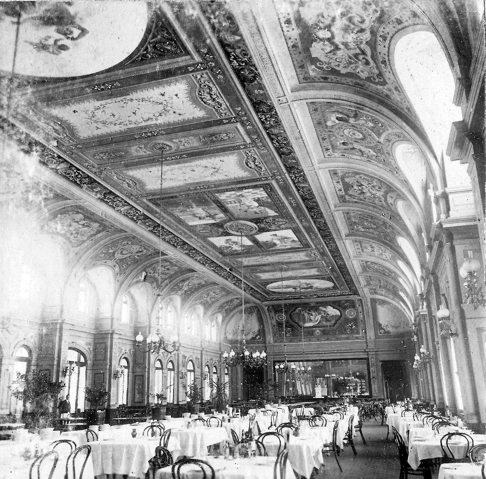 Mar del Plata. Hotel Bristol, fines del siglo XIX.